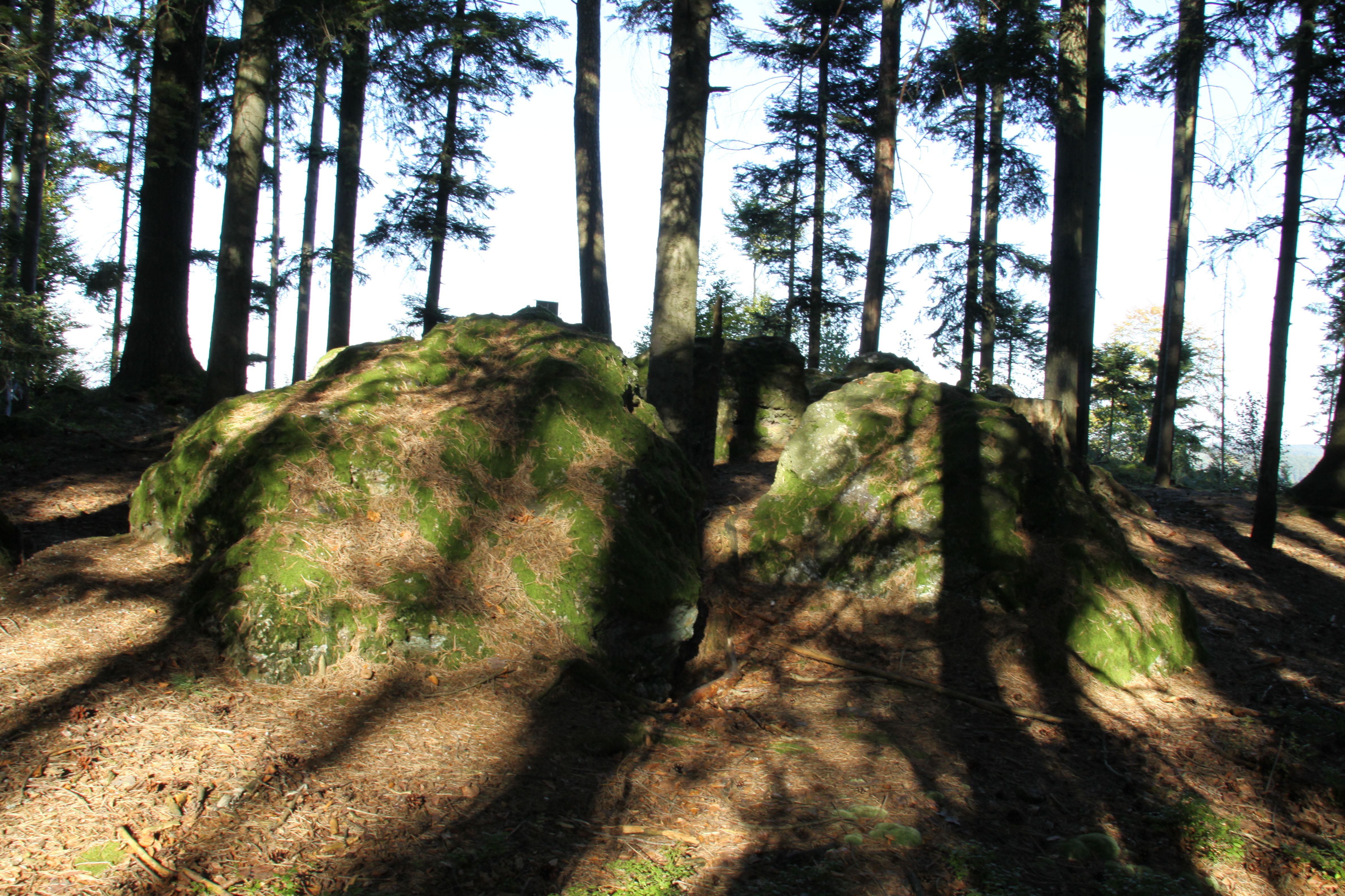 Rests of huge pleistocene „Keuper-Flintstones“ on "Flinsberg" (Mainhardter Wald, landscape north of the Swabian Alb (close to Schwäbisch Hall).